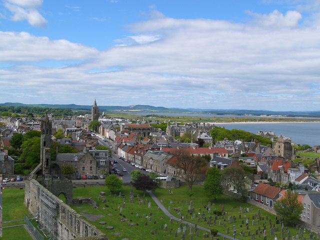 St Andrews from Regulus tower